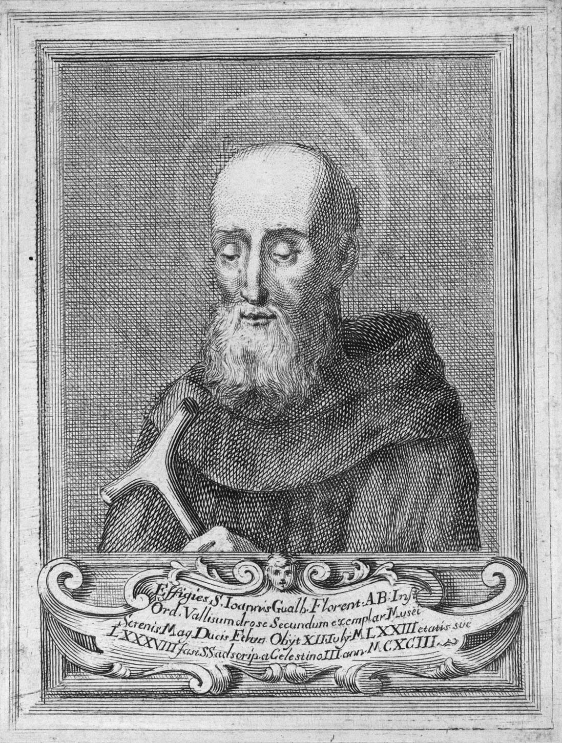 San Giovanni Gualberto etching and engraving 17.1 x 13 cm 18th century?